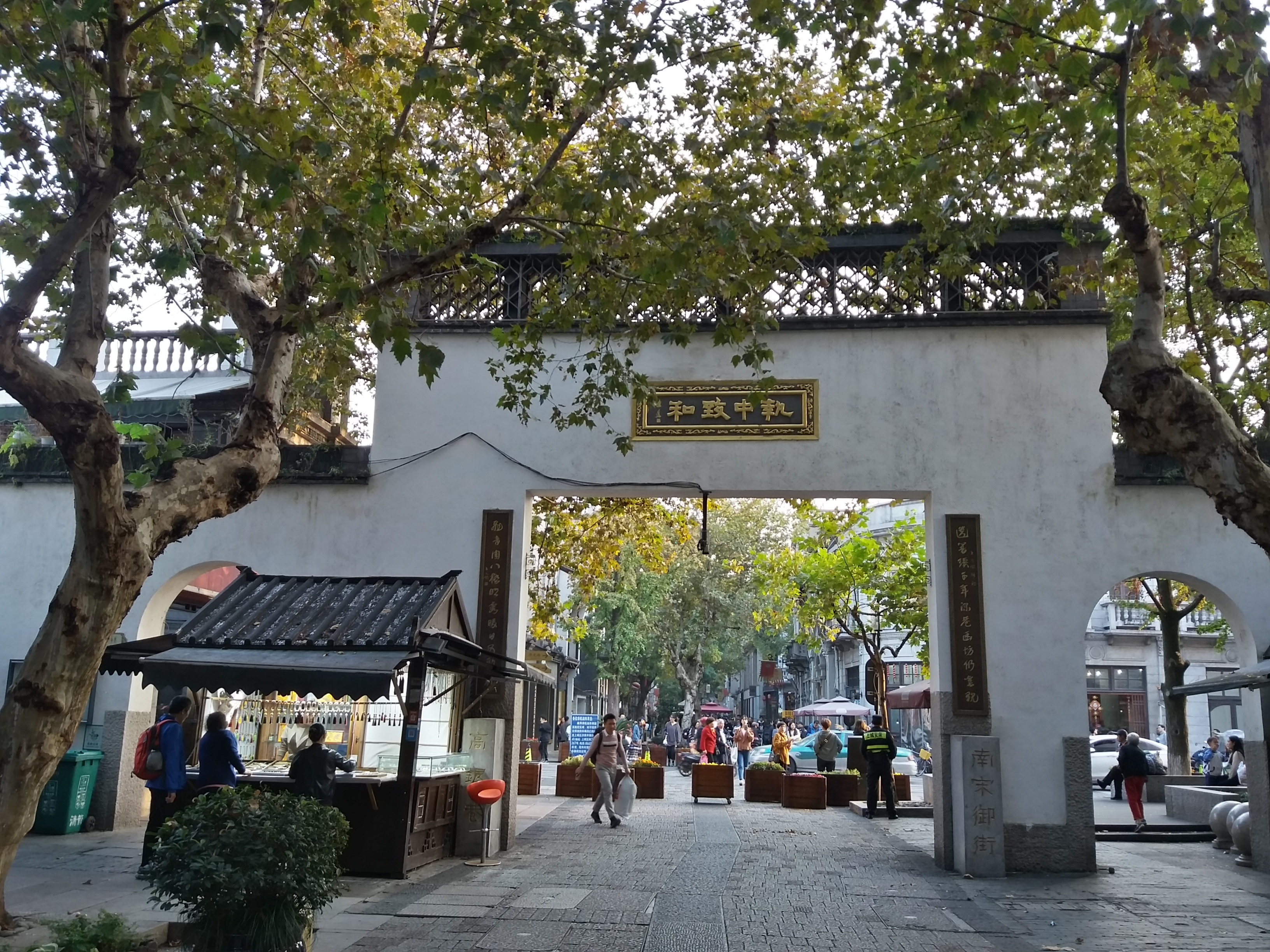 Southern Song Imperial Street